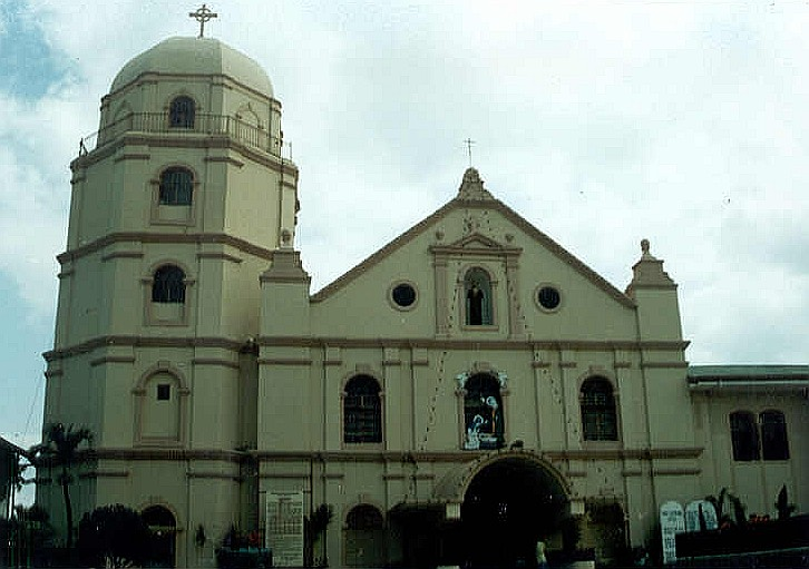 Obando Church, Obando, Bulacan, Philippines.